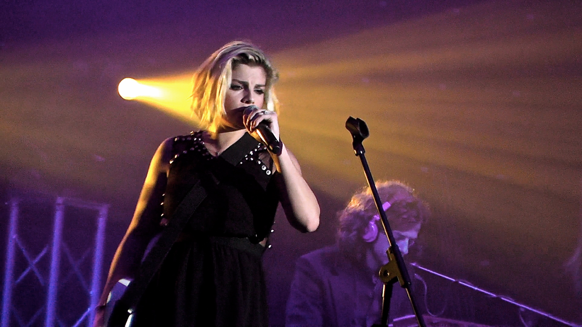 Picture taken at the Paladozza of Bologna in 2012 with a Panasonic Camcorder HC-V700